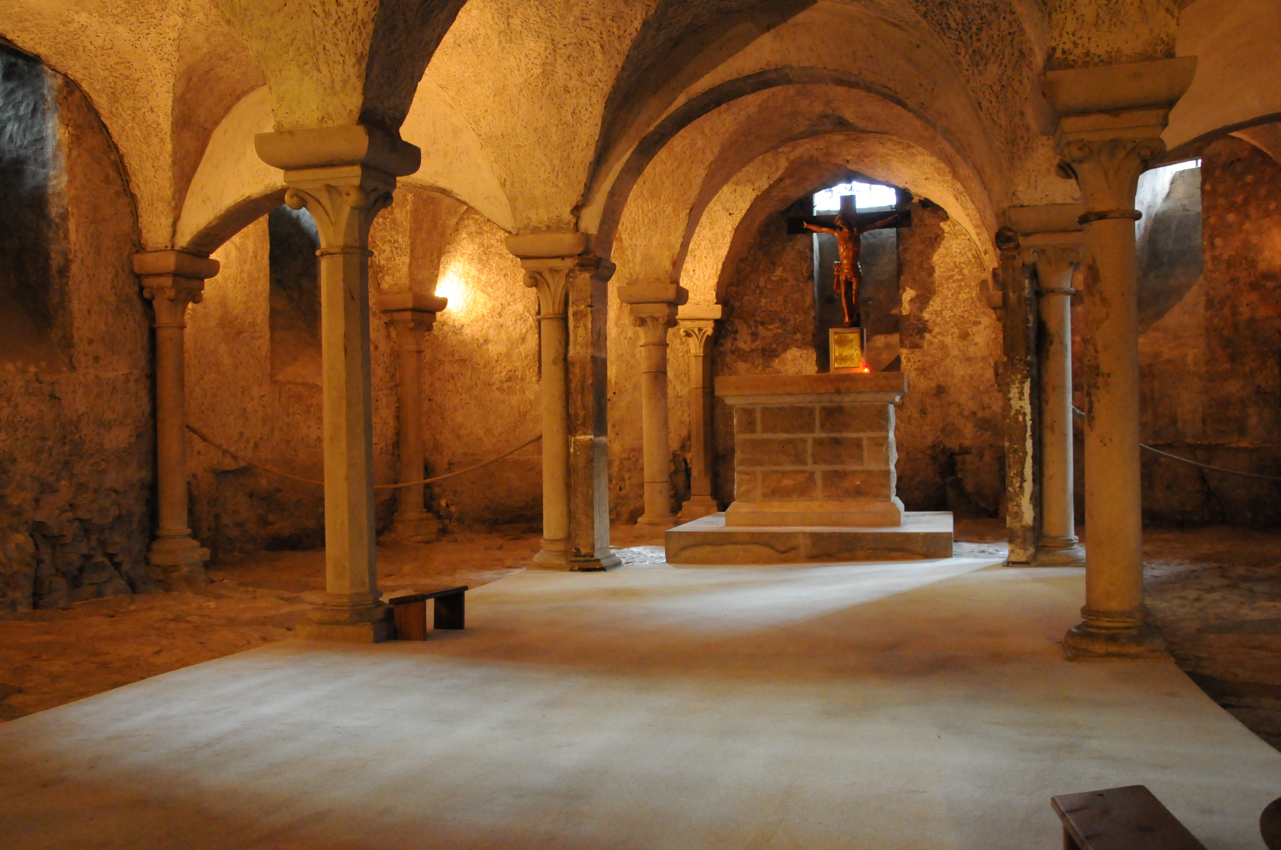 Crypt of Vezelay basilica